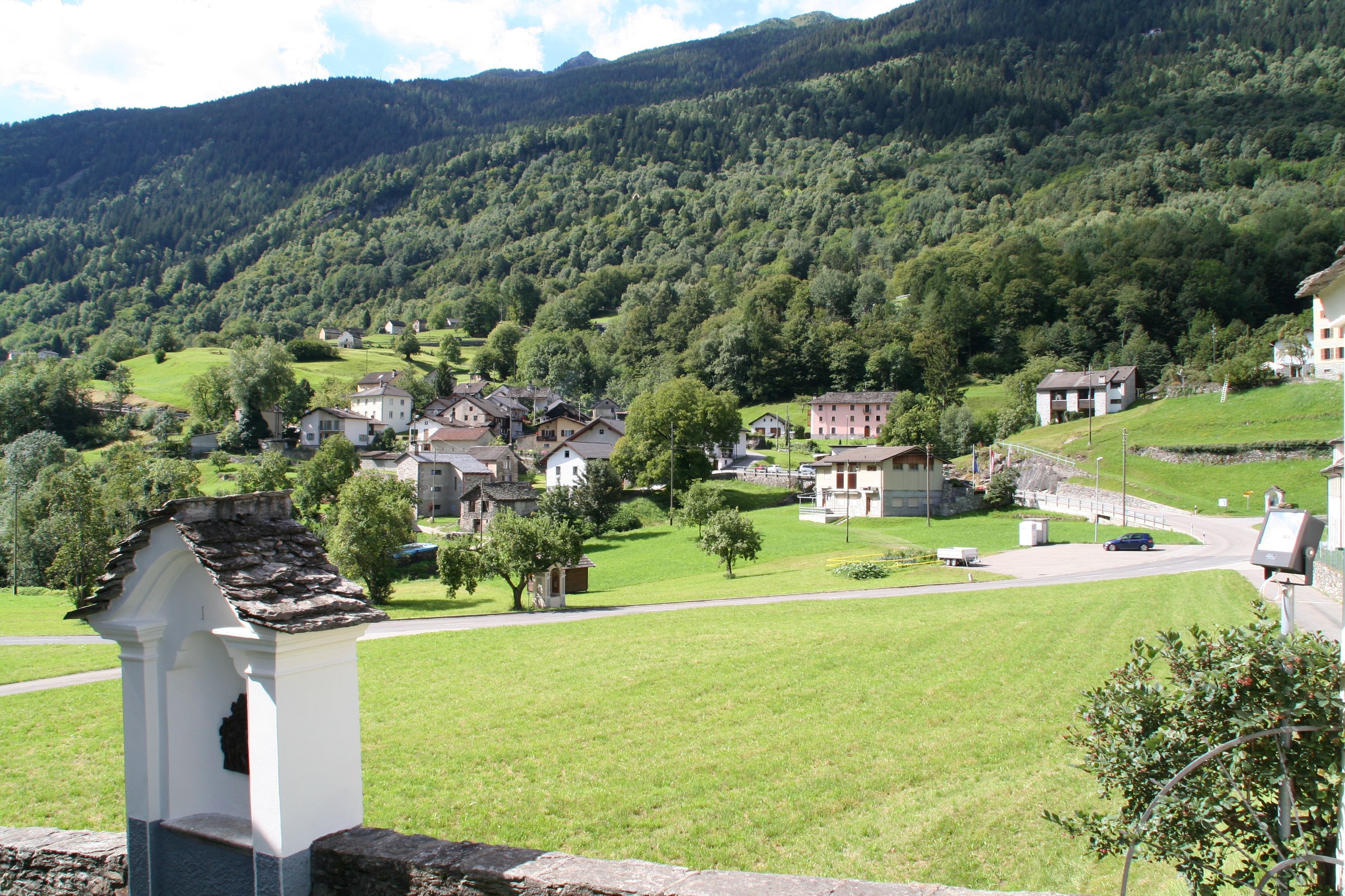 Kirche Santi Nazario e Celso Blick ins Dorf